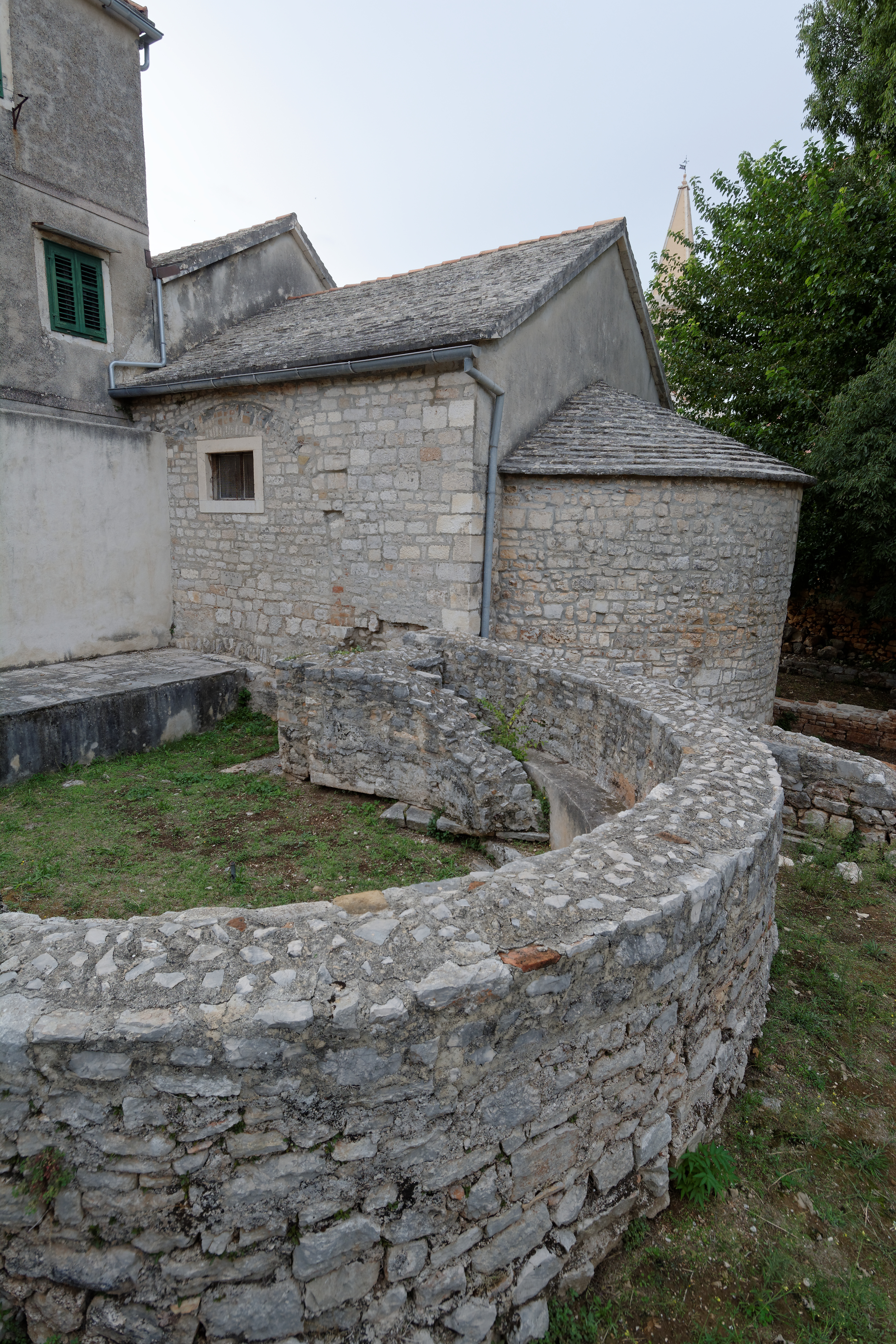 Church of St. John (sv. Ivan) in Stari Grad.